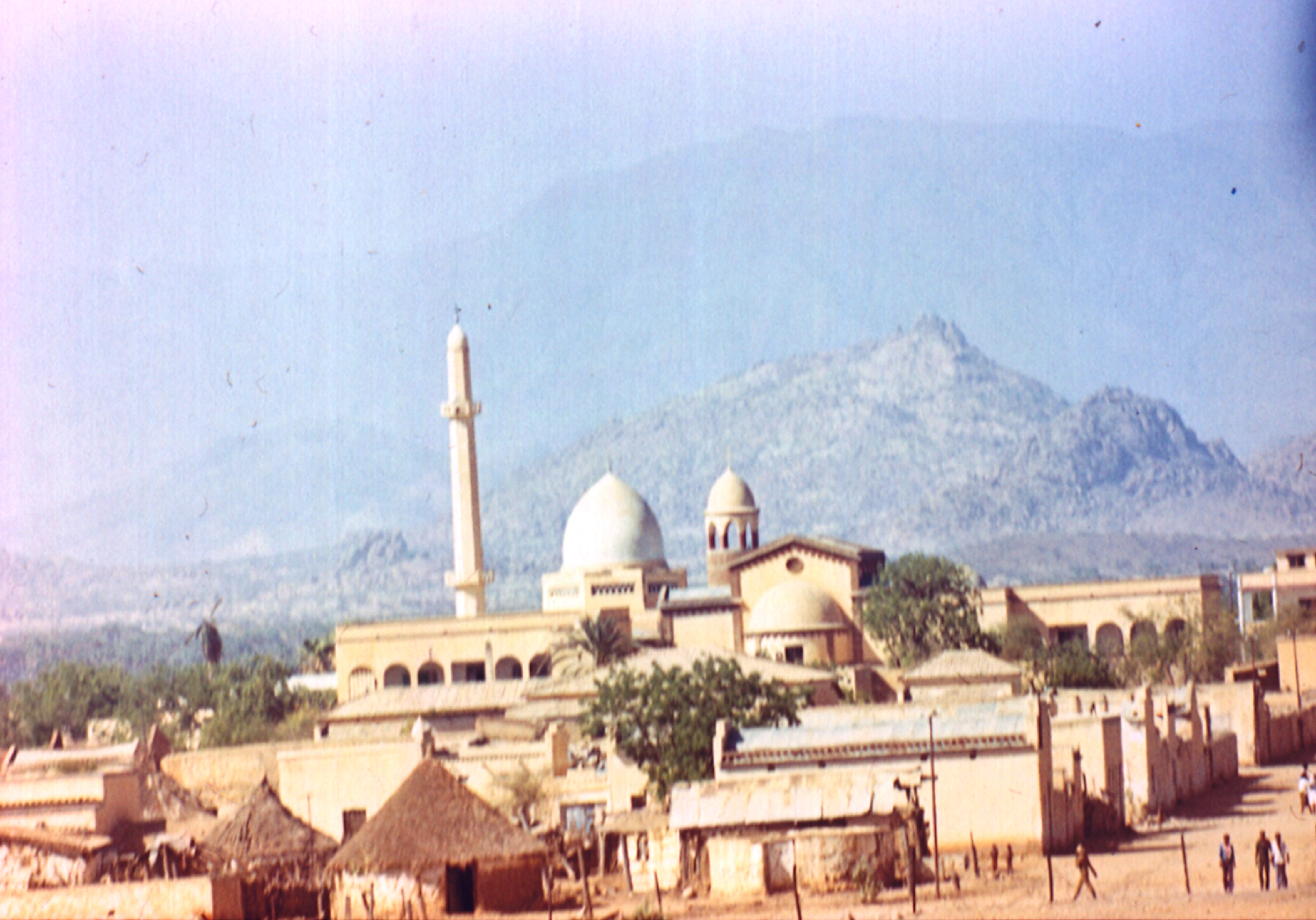 View of Agordat in 1982, Eritrea.